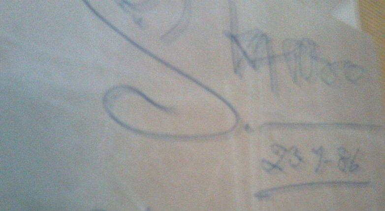 Autograph of Satyen Kappu